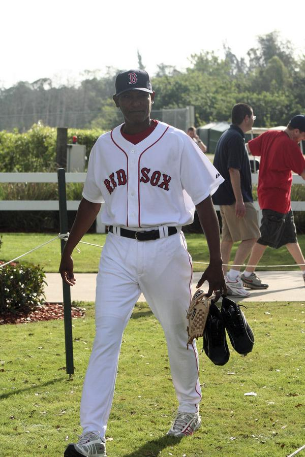 Description Devern Hansack in Spring TrainingDate 2.24.08Source Own workAuthor HappyHarvick2962 (talk)Other versions Derivative works of this file: Hansack edit.jpg 03:05, 6 April 2008 . . HappyHarvick2962 . . 600×900 (90 KB) Devern Hansack in Spring Training